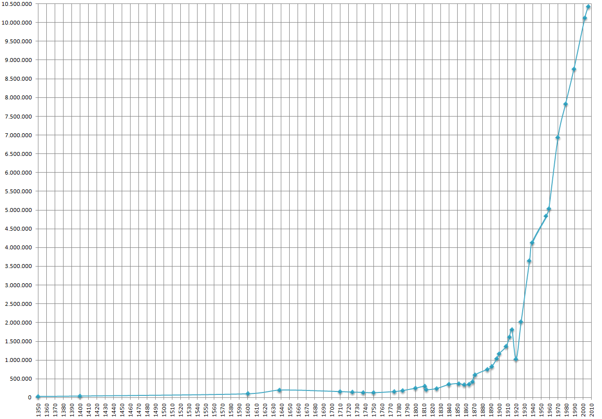 Moscow's population (1350-2010).